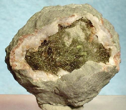 Millerite Locality: Halls Gap, Lincoln County, Kentucky, USA (Locality at ) Size: 3.9 x 3.3 x 2.8 cm. A nifty, little limestone geode filled with soft, hair-like, brassy needles of millerite from the famous and now-closed Halls Gap, Kentucky locality. Fine, older and choice material from the Marty Zinn Collection.